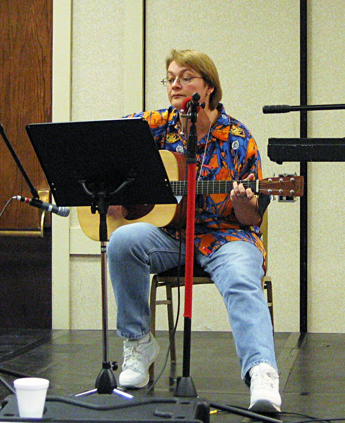 Canadian fantasy author Tanya Huff at Ohio Valley Filk Festival 2005.Tanya Huff (was: Well Known Person Who's Name I've Forgotten)